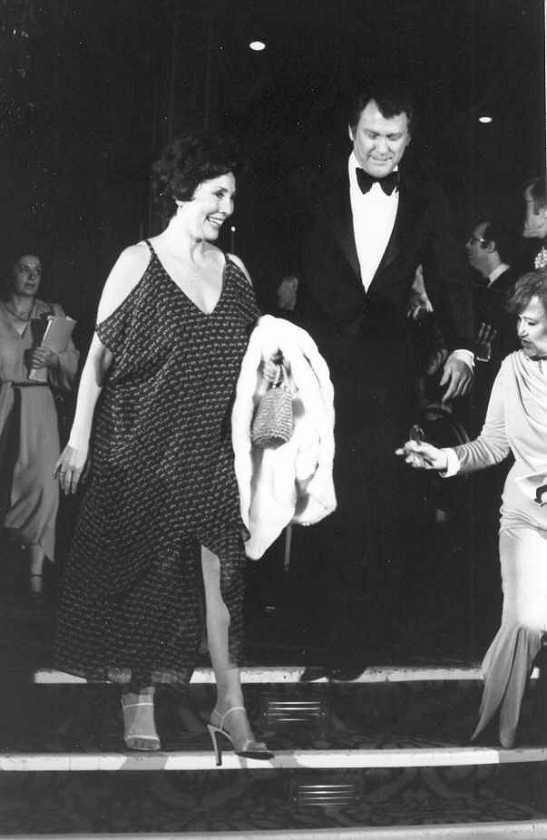 Earl Holliman at the National Film Society convention, May 1979. NOTE: Permission granted to copy, publish, broadcast or post any of my photos, but please credit "photo by Alan Light" if you can. Thanks.